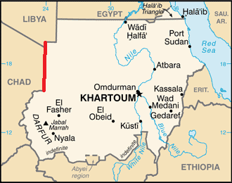 Map of Sudan, showing the 24th meridian east as part of the border with Libya and Chad